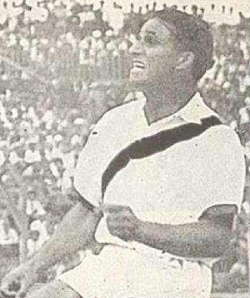 Lolo Fernandez in the South American Championship 1939.